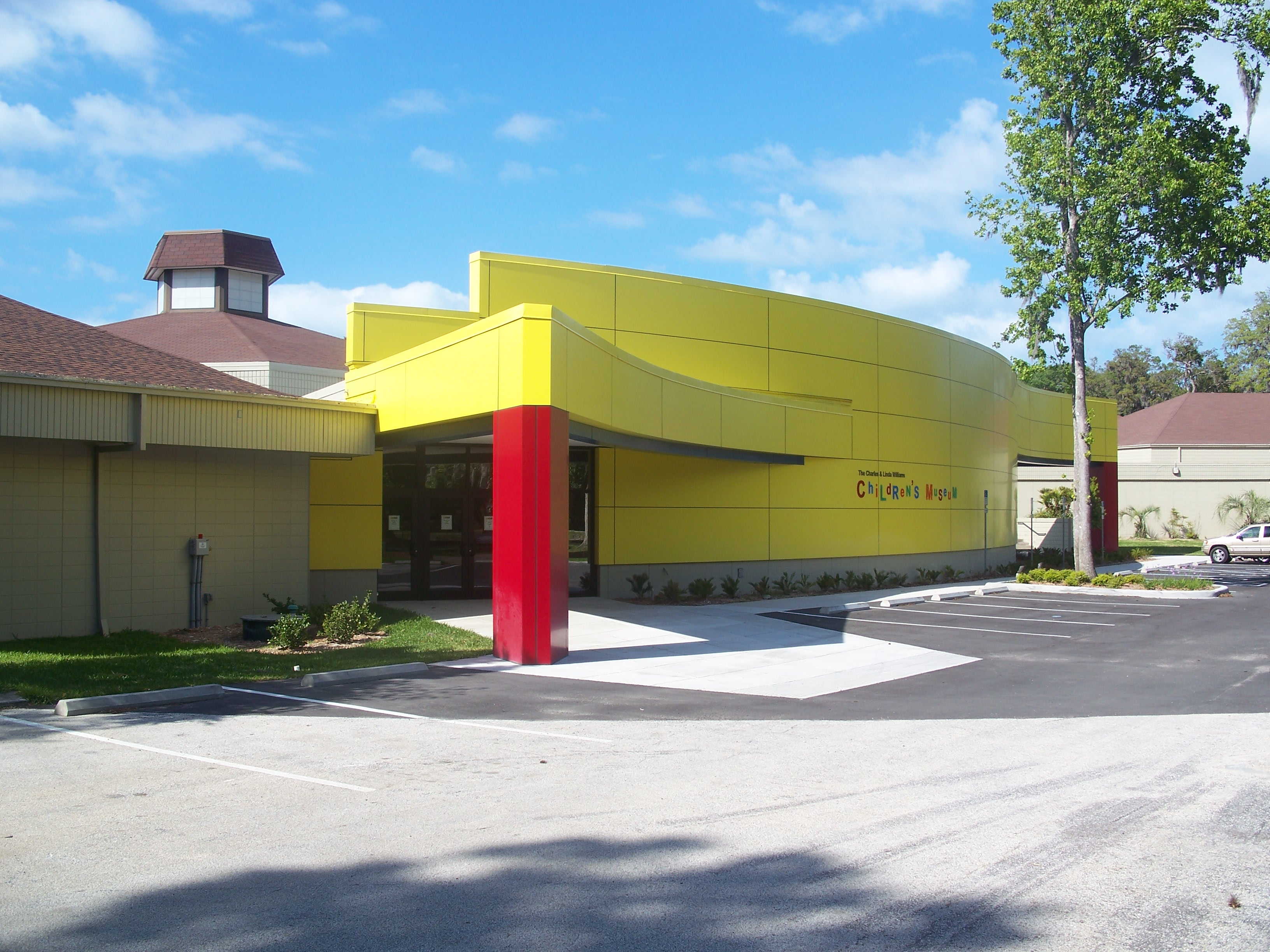 Daytona Beach, Florida: Museum of Arts and Sciences: Children's Museum